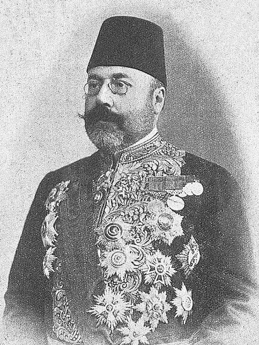 Ibrahim Hakki (cropped portrait)